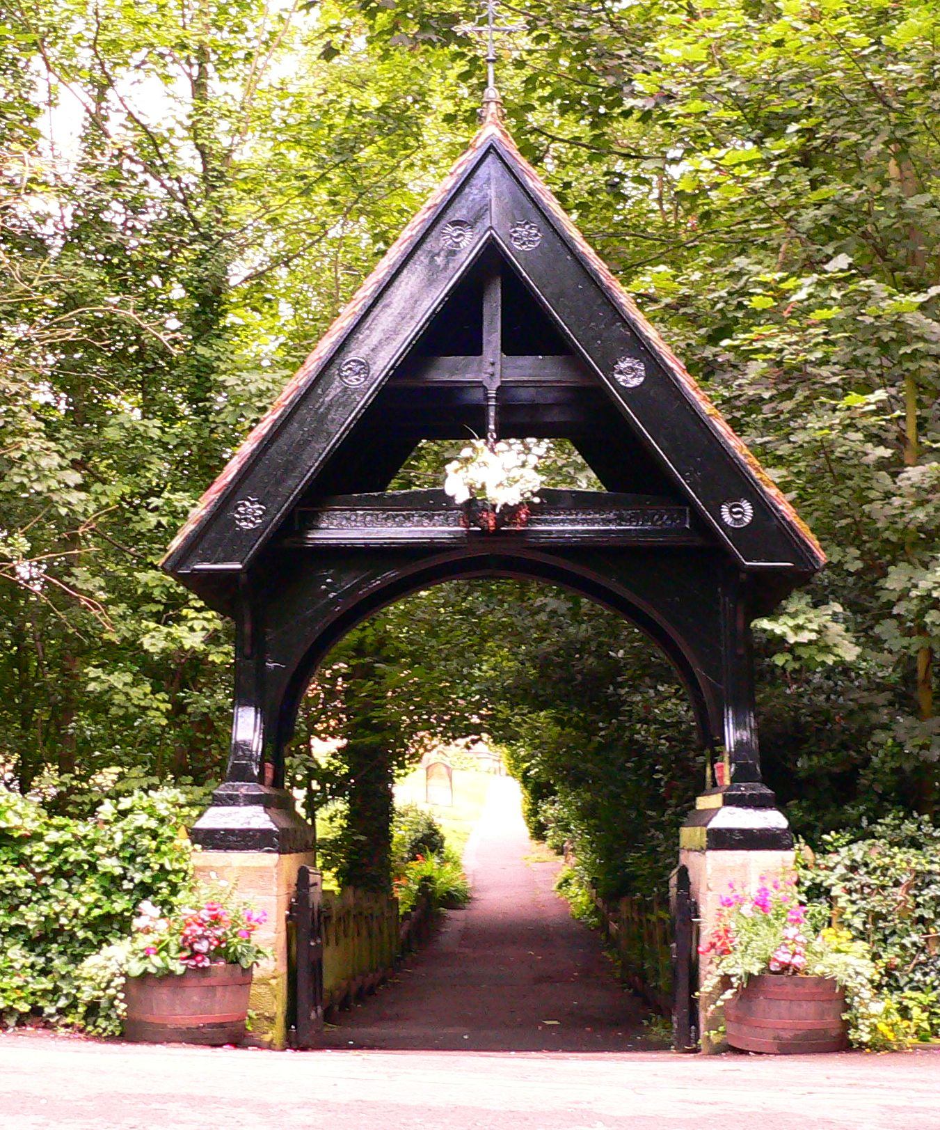 Ormesby: the entrance to St Cuthbert's churchyard. Redcar and Cleveland.